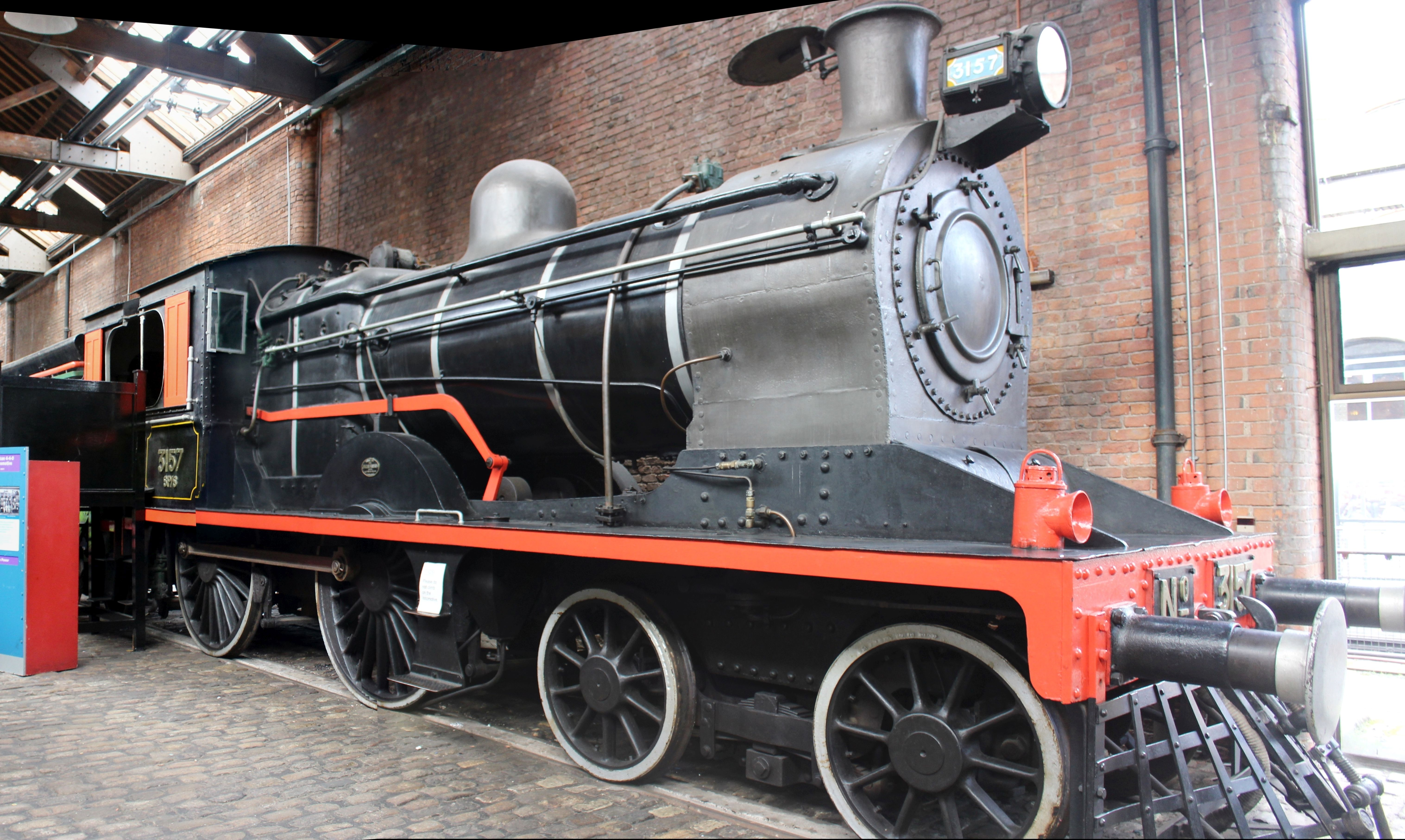 Vulcan Foundry 4-4-0 Works Nº3064 of 1911, supplied to India as class SPS (Standard Passenger 4-4-0, superheated), later used by Pakistan Railways as their Nº3157. Eventually returned to Manchester and the Museum of Science and Industry in Manchester.